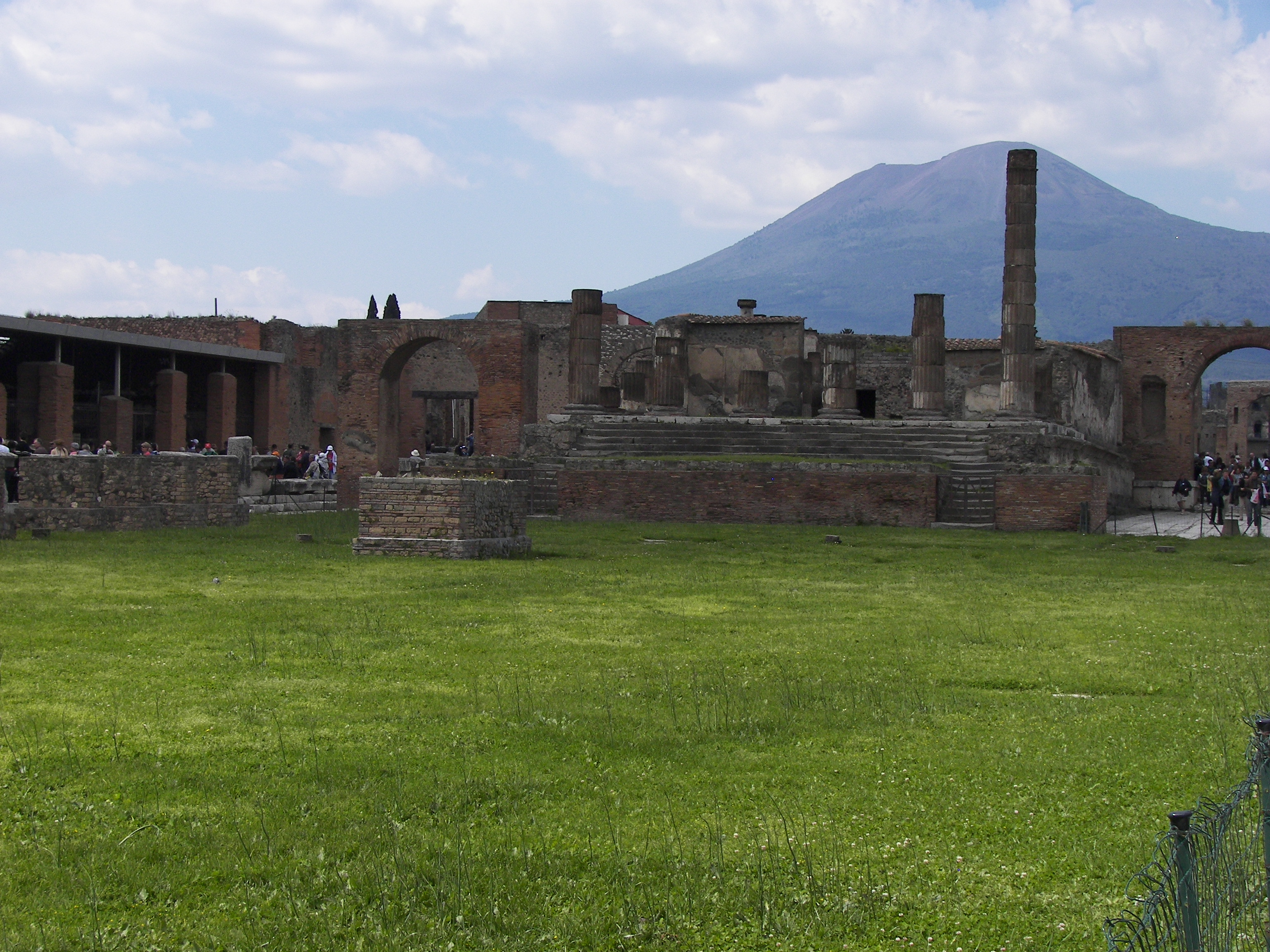 Forum in Pompeii with the Temple of Jupiter in the center-right and Mount Vesuvius in the background.